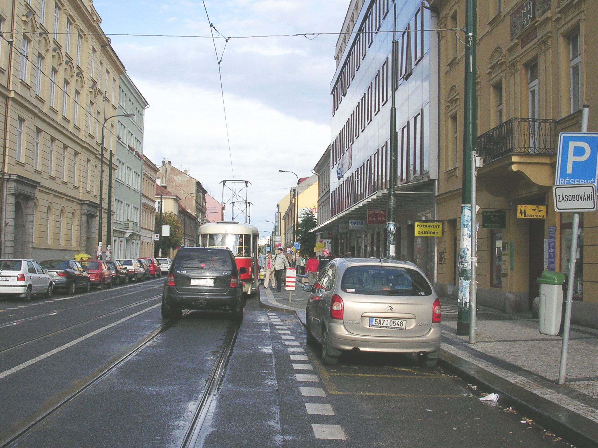 Tram stop Křižíkova at Sokolovská street, Karlín, Prague.